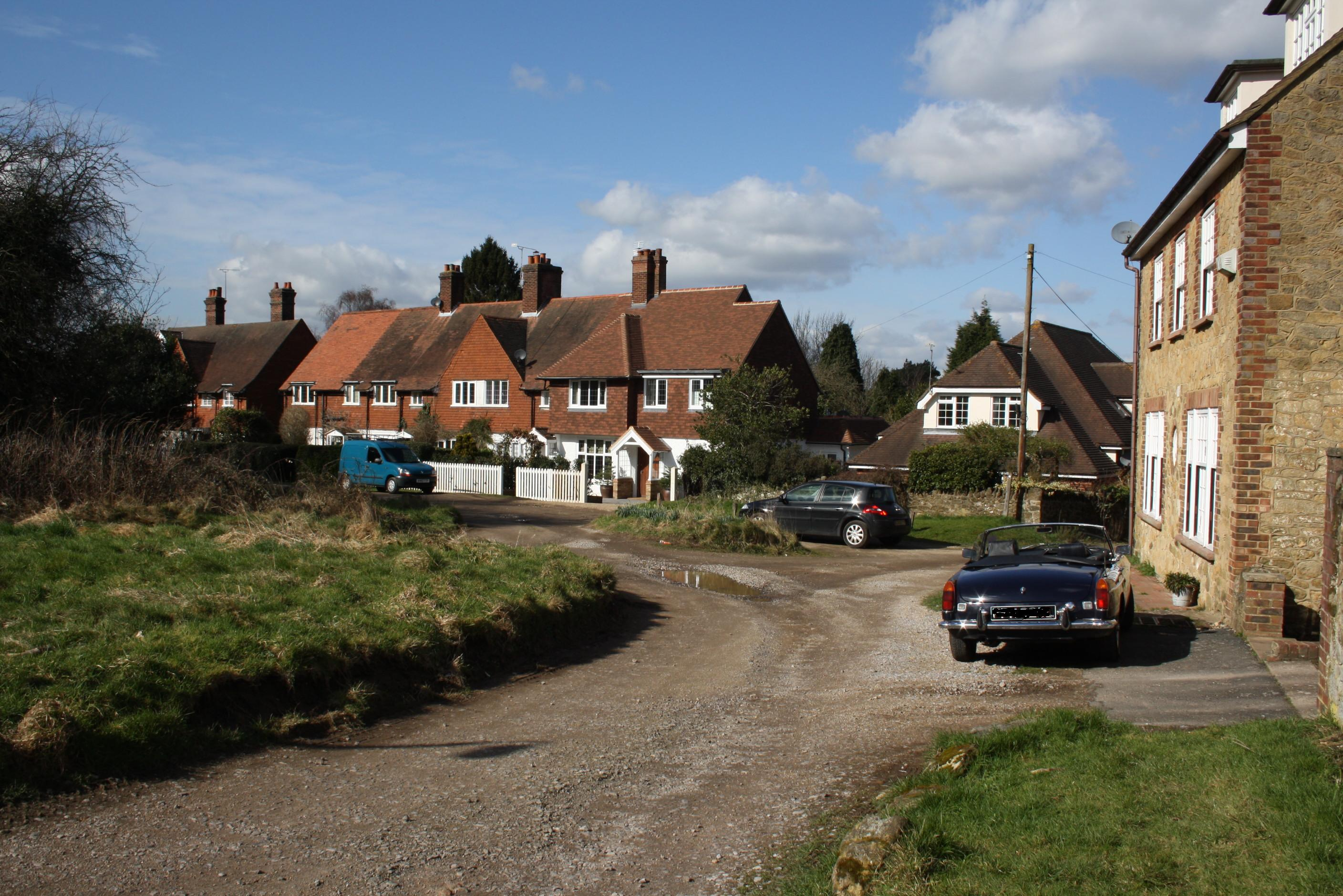 The hamlet of Limpsfield Chart in Surrey